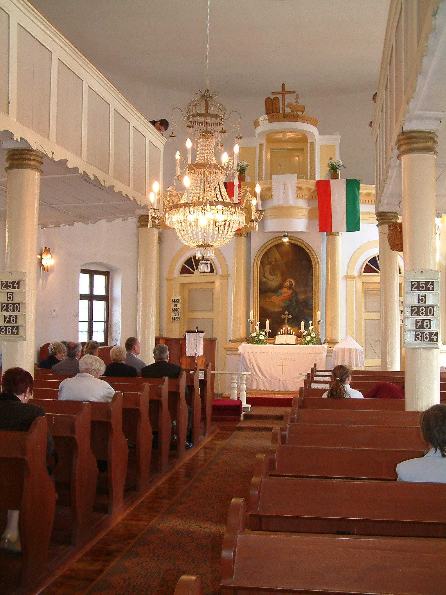 Interior picture of the lutheran church of Iharosberény, Hungary